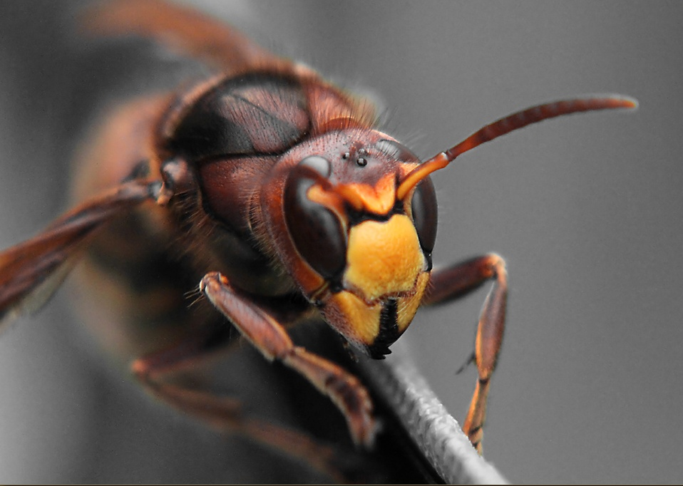 Macro-Photograph of a Hornet (Vespa crabro germana). The Ocelli are clearly visible.